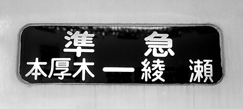 The rollsign of Odakyu Electric Railway 9000 series EMU that indicates it is on the semi- express service between Hon-Atsugi and Ayase.